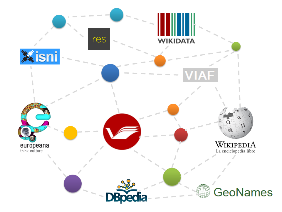 Linked Open Data at BVMC